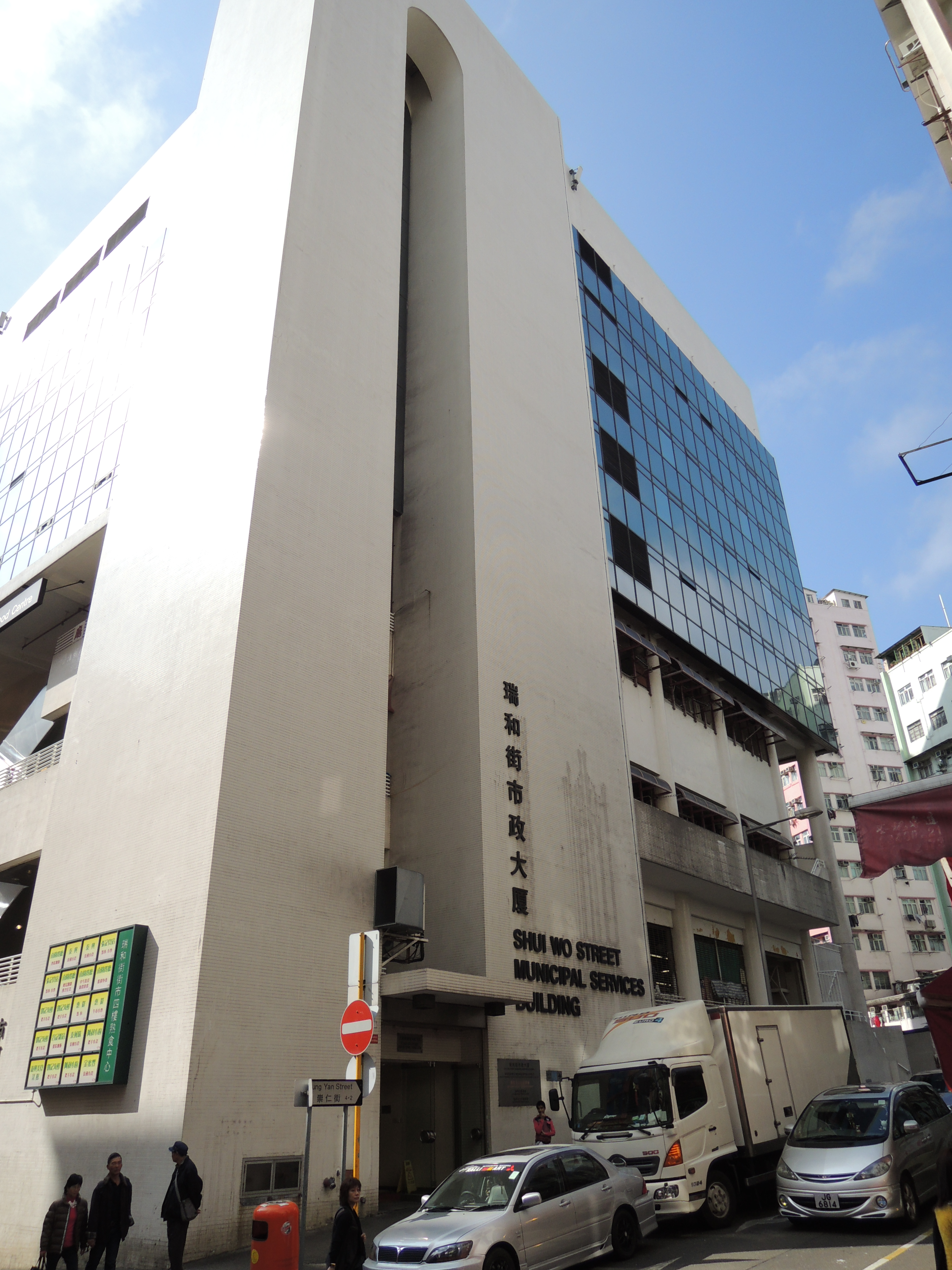 Shui Wo Street Municipal Services Building (Shui Wo Street, Kwun Tong, Kowloon, Hong Kong) 中文（香港）: 瑞和街市政大廈 (香港九龍觀塘瑞和街9號)